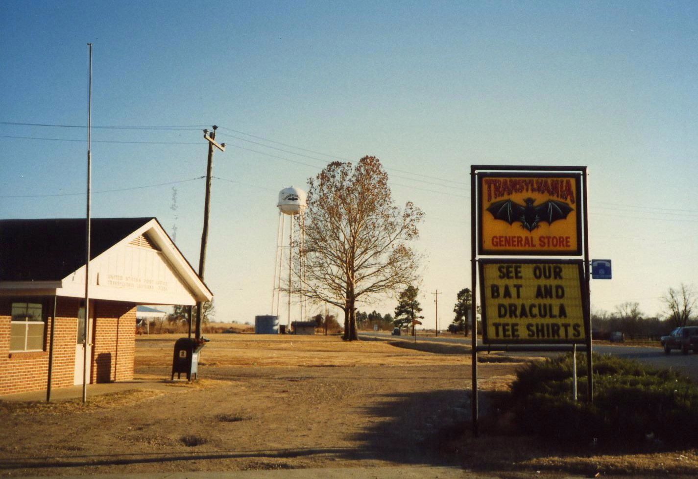 Transylvania, Louisiana. View with water tower, post office, and sign for general store.